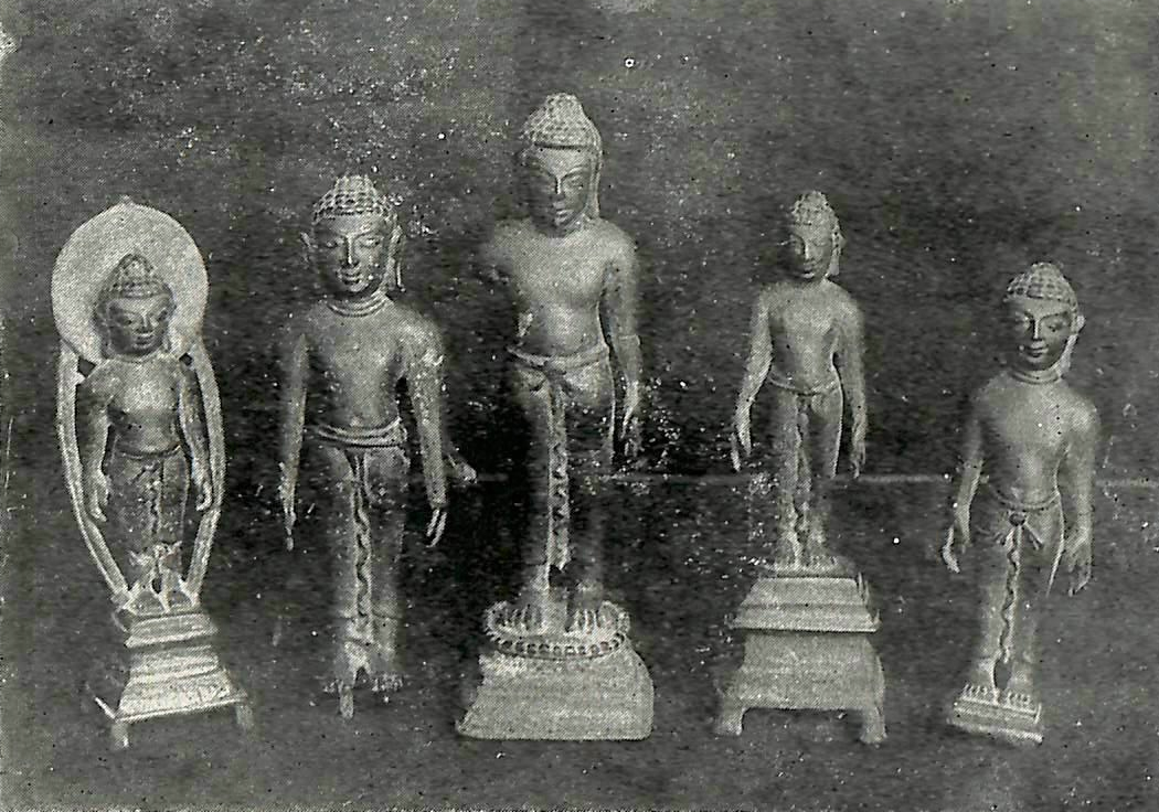 Five Bronzes from Valabhipur during the rule of Dhruvasena I of Maitraka dynasty, c. 519 - c. 549 CE